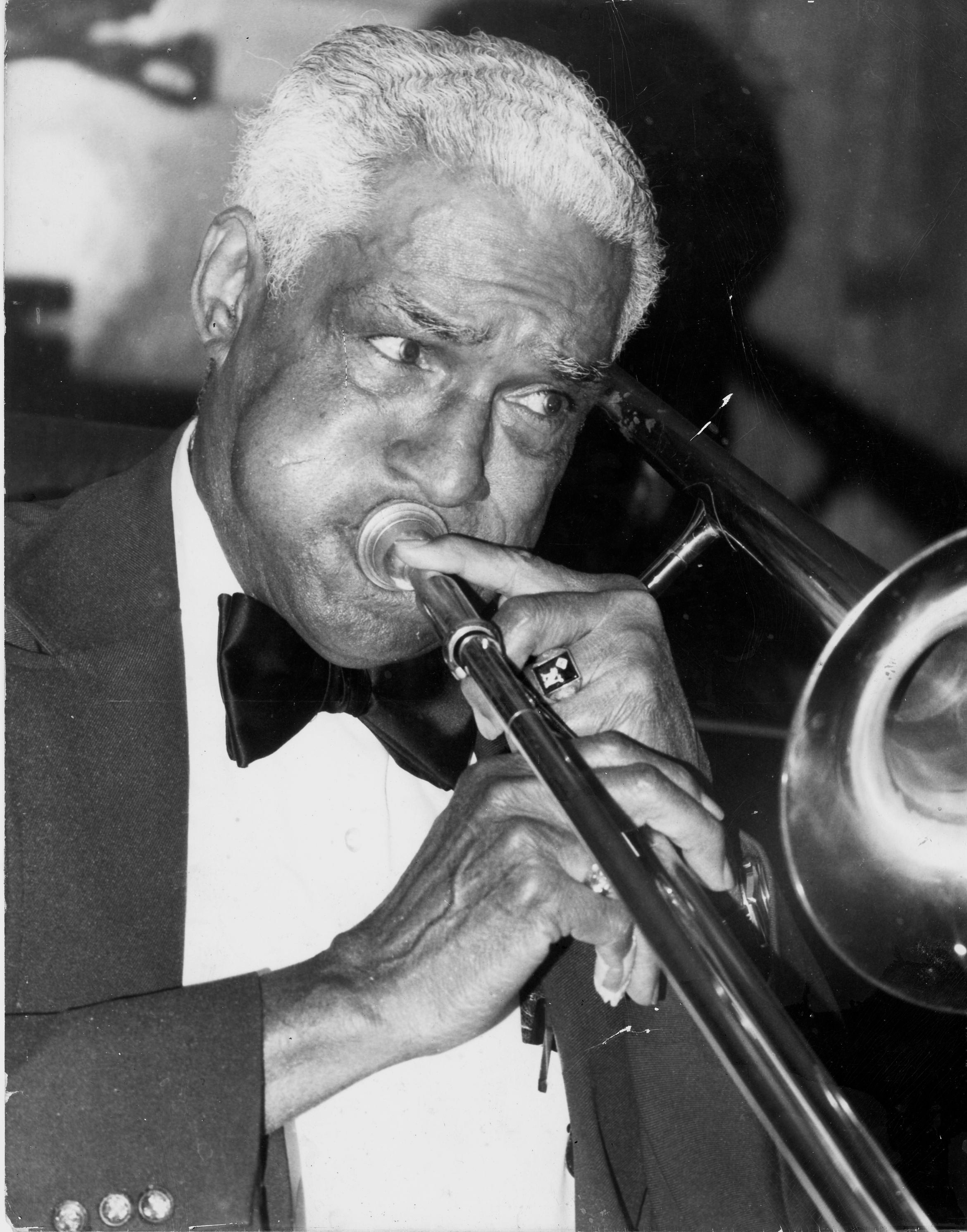 Louis Hall Nelson Playing Trombone circa 1981